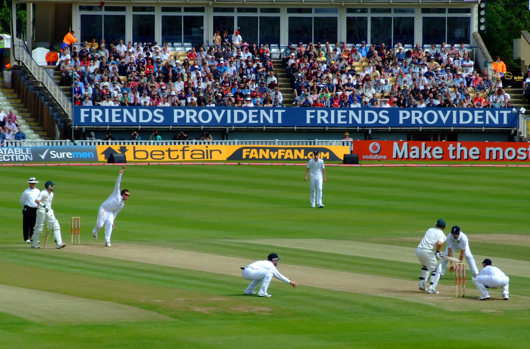 5th Day, 3rd Test: England v Australia, Edgbaston, 3rd August 2009 Graeme Swann bowling.